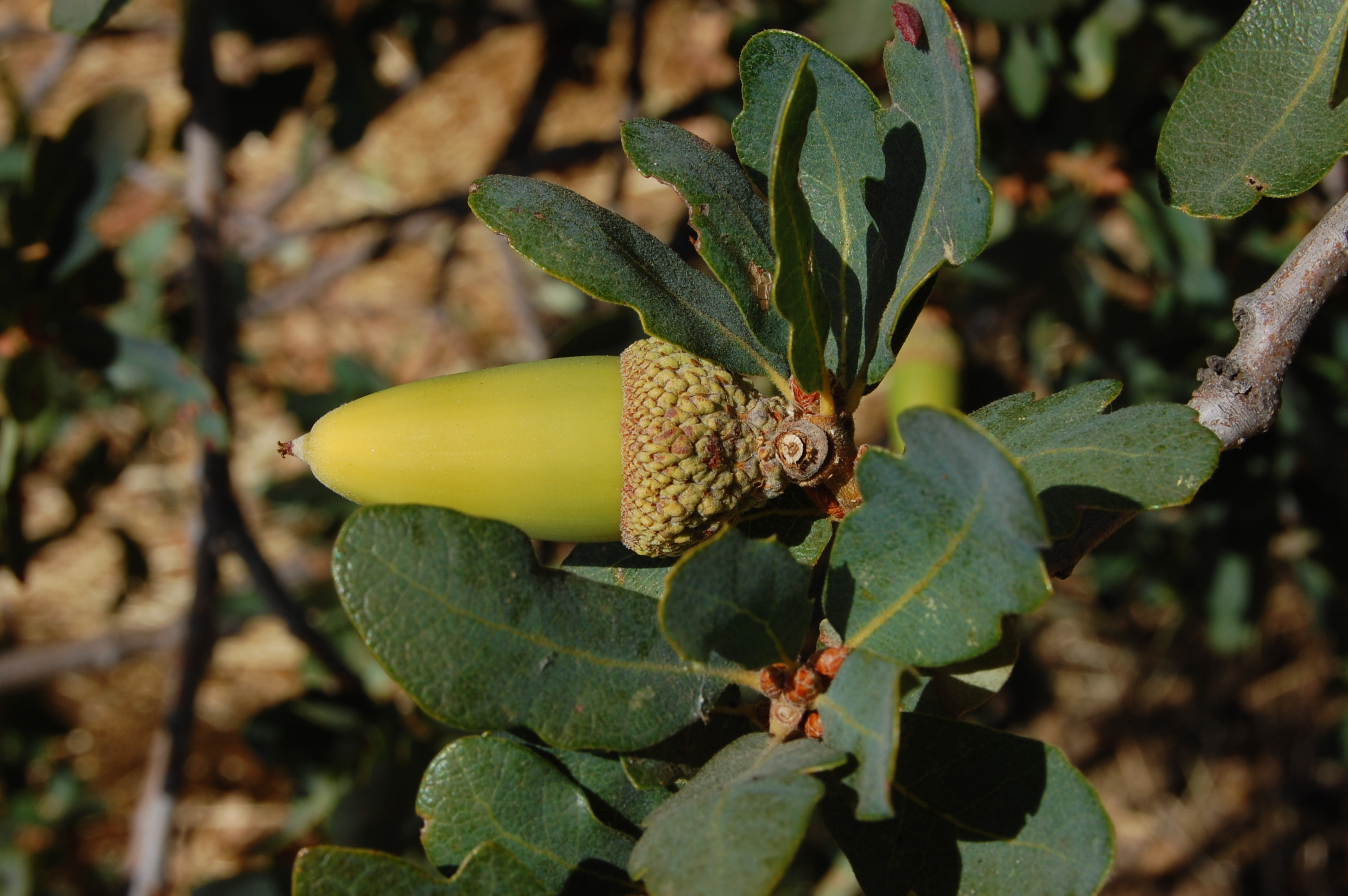 Blue Oak